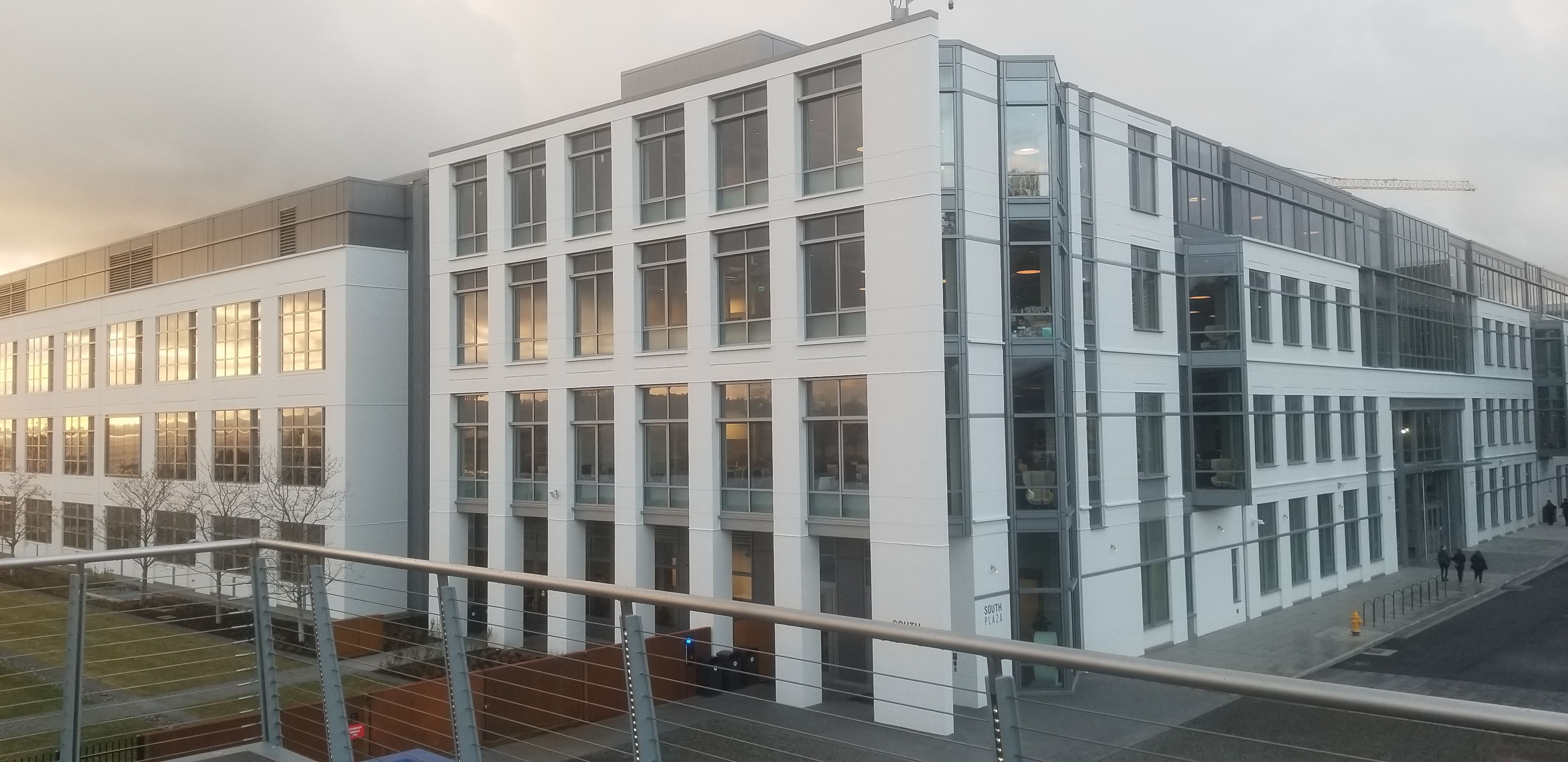 Expedia Group south entrance from Expedia Group Bridge